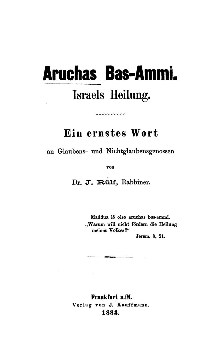 Title page of a book written by Isaac Rülf in 1883 to promote the emigration of the russian Jews in Palestine